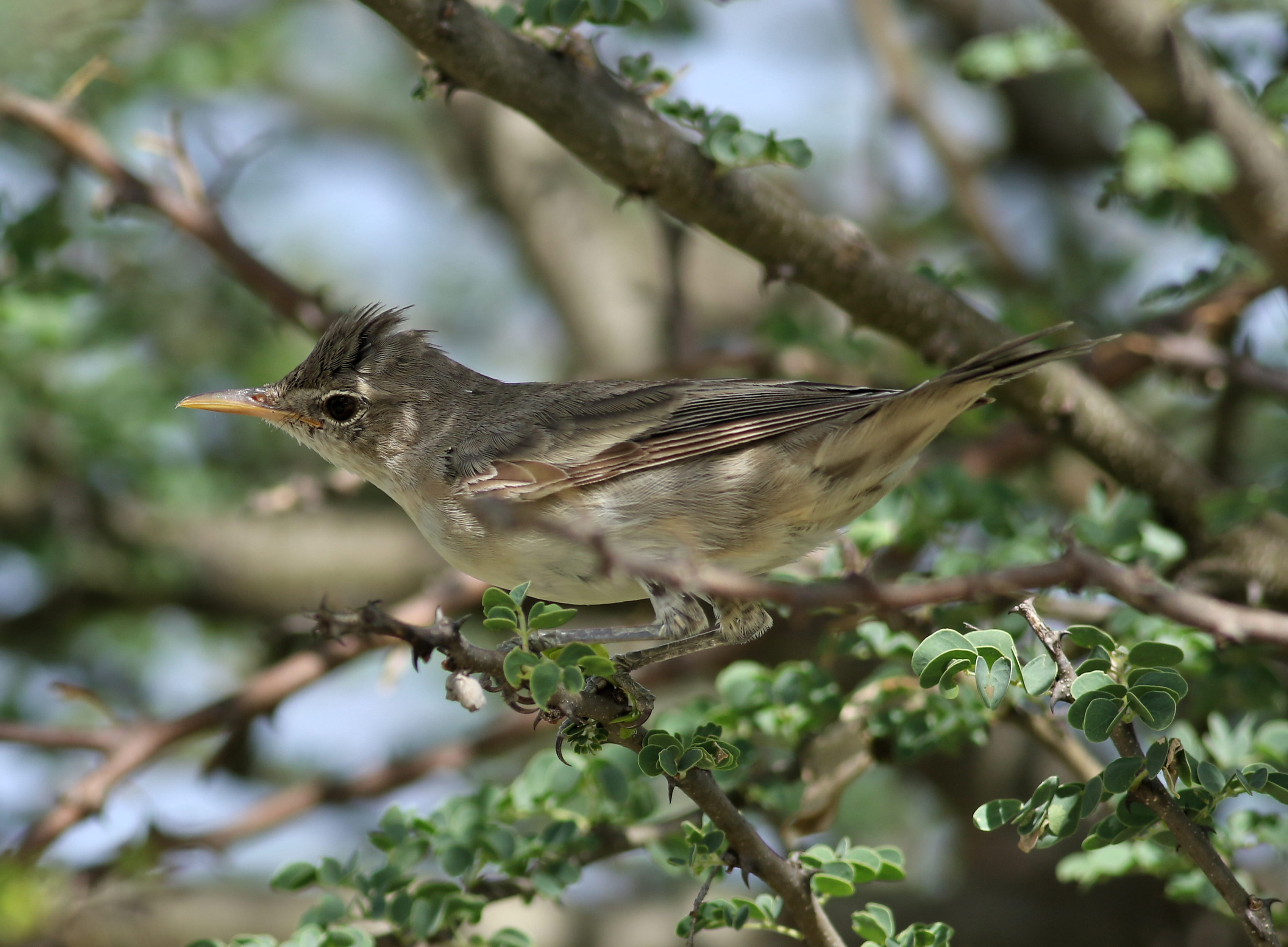 Hippolais olivetorum, at Elephant Sands Lodge, Botswana